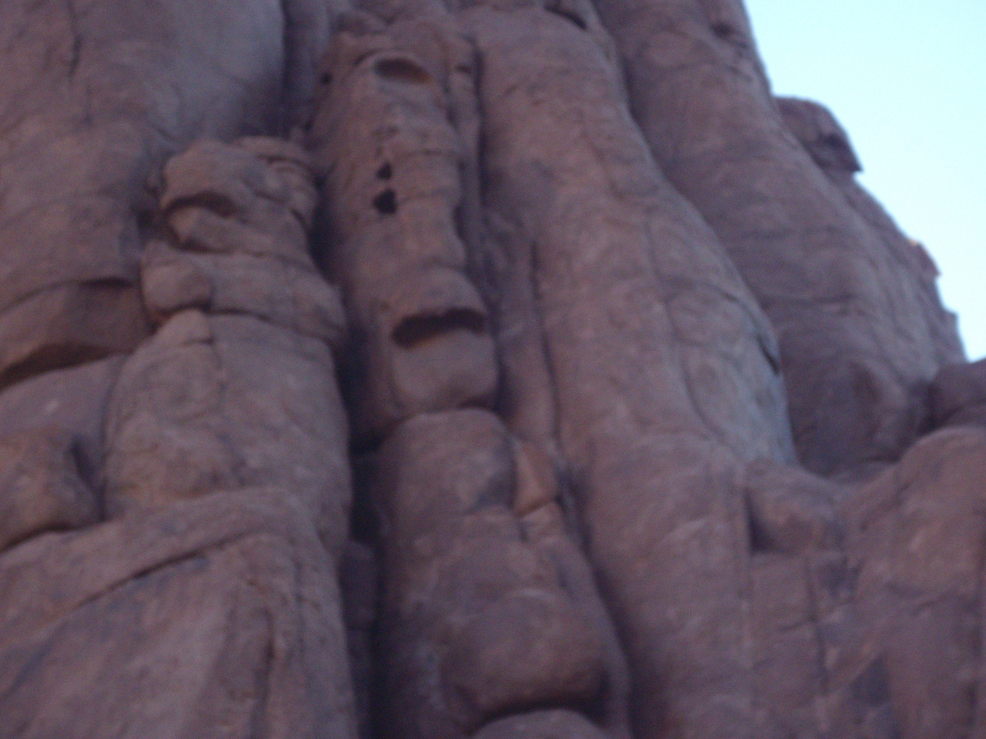 Unique "Human Natural Rock Formation" in Sinai Mountains (Egypt)